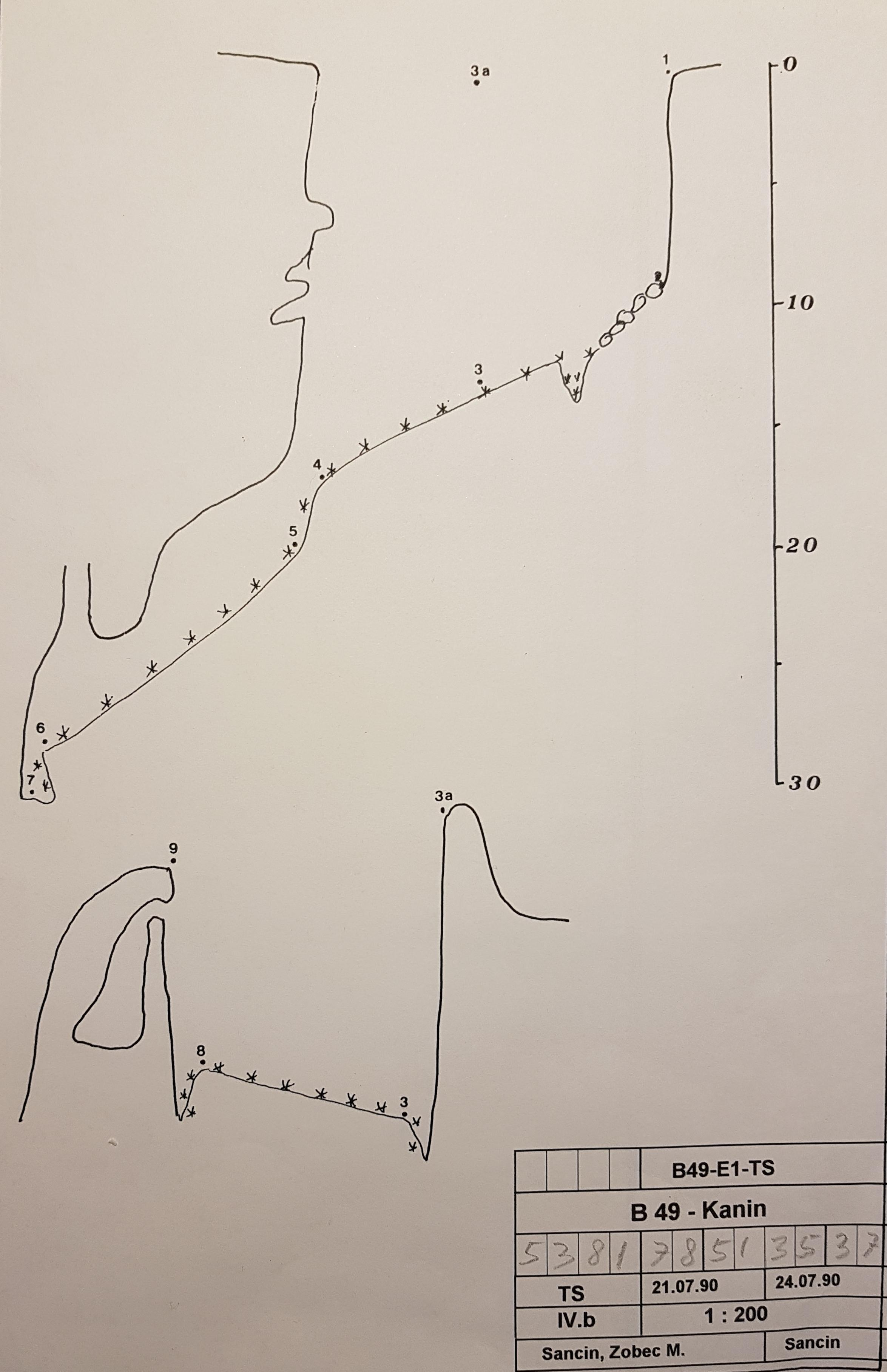 Map of the B49 cave on Mt. Kanin, drawn by Stojan Sancin on July 24, 1990